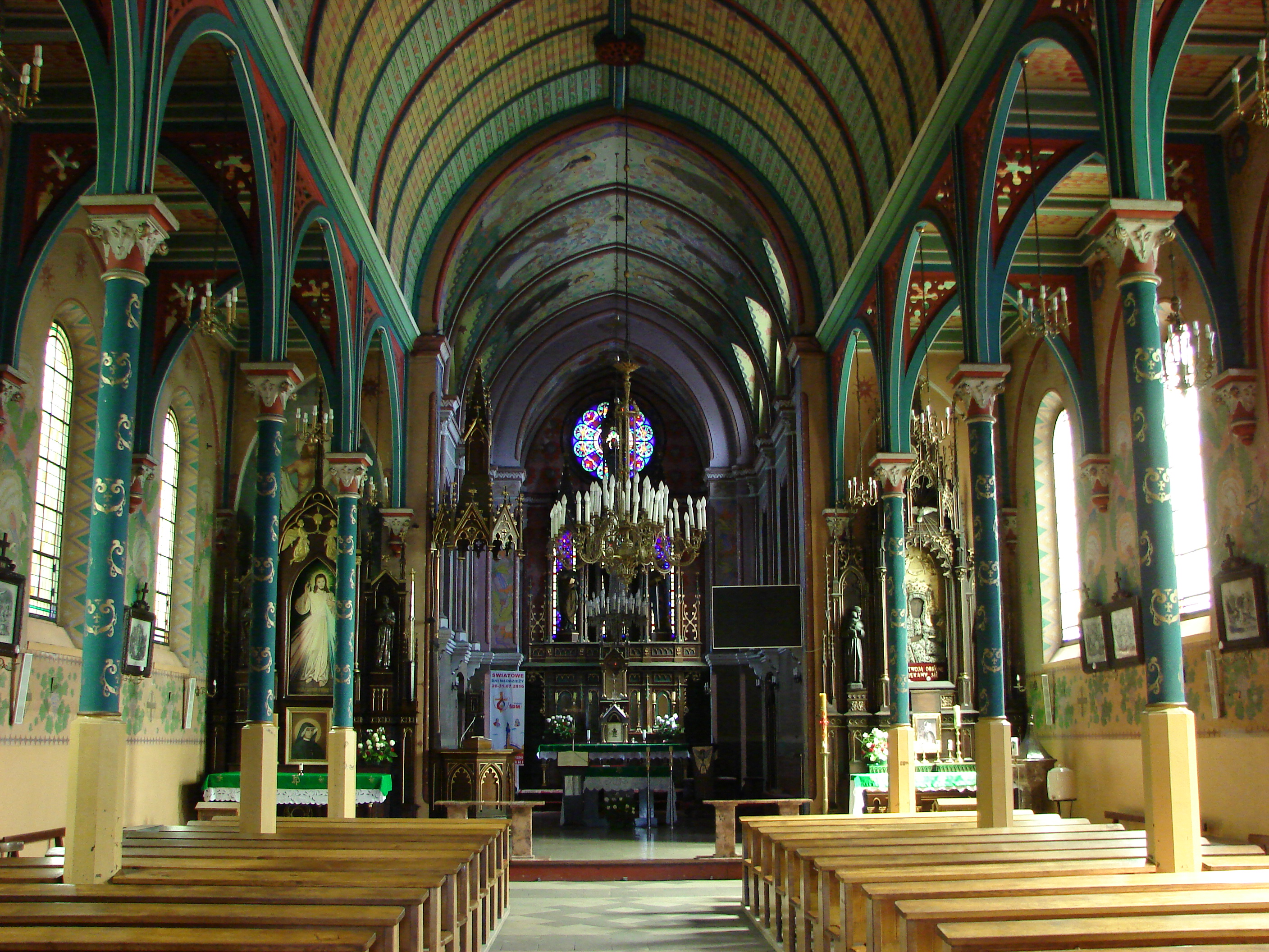 Lubień Kujawski, The interior of the church.